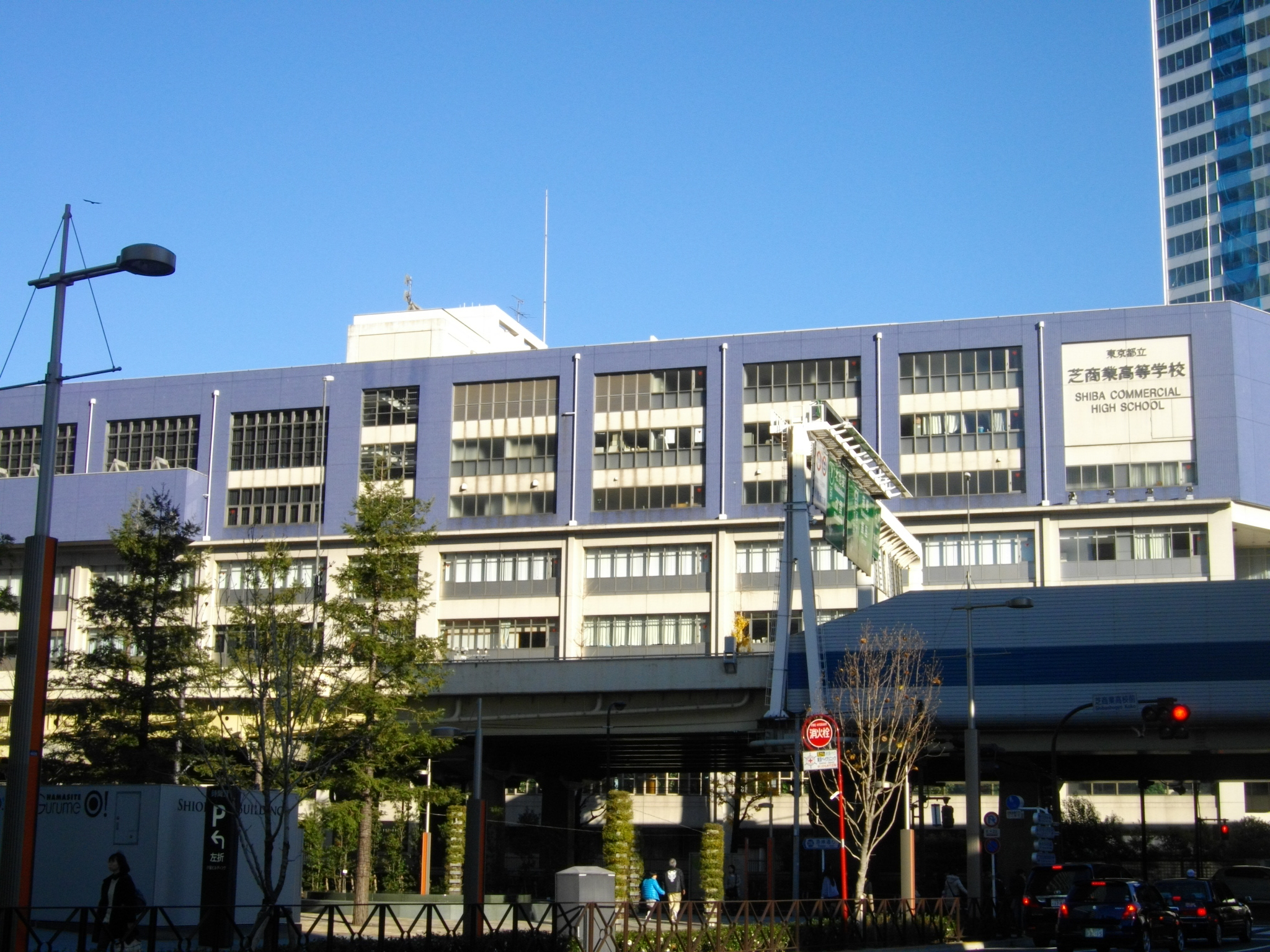 Shiba Commercial High School